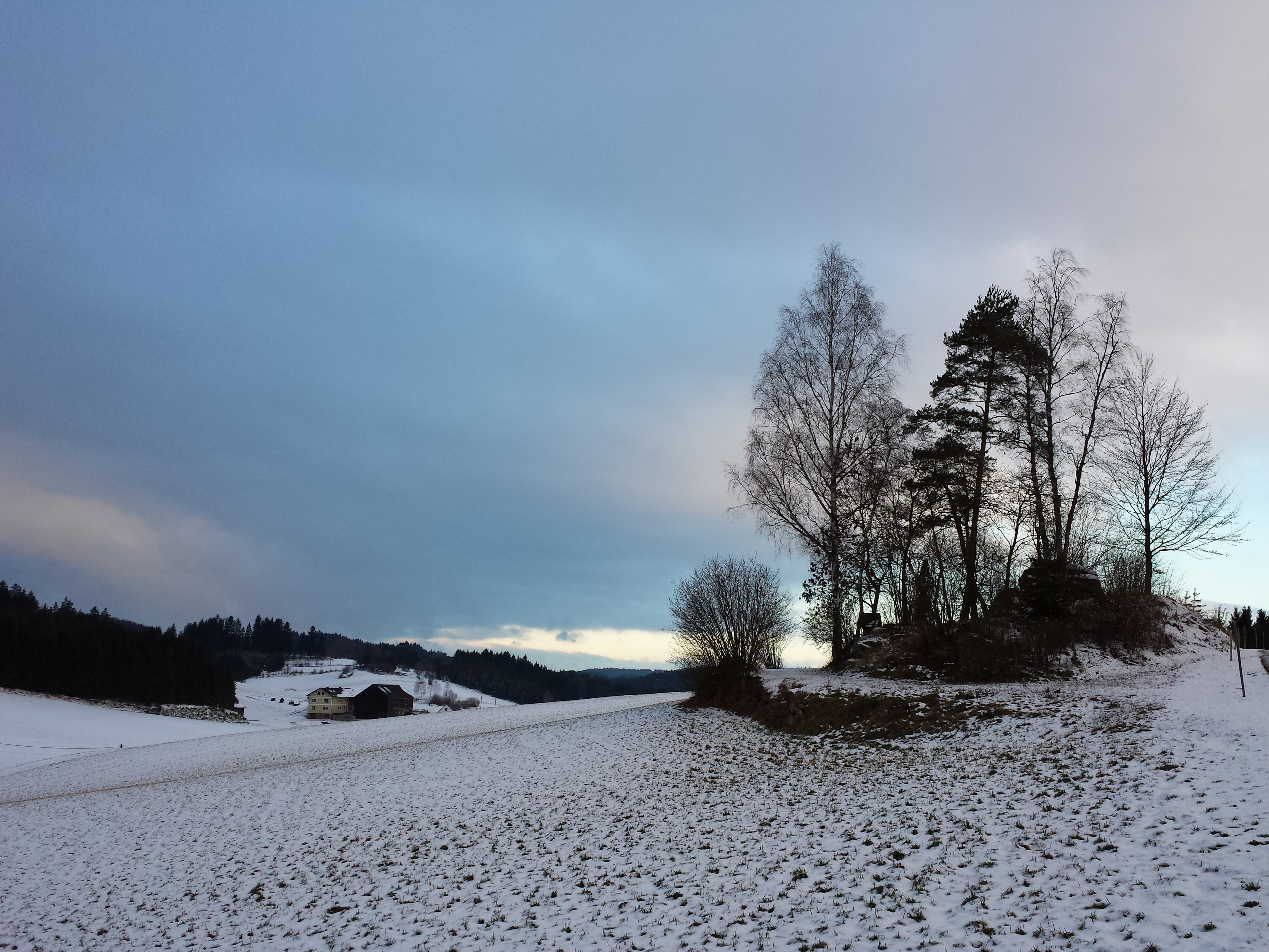 Winter landscape in Waldviertel with typical woodly hill, to the east of Arbesbach, district Zwettl, Lower Austria